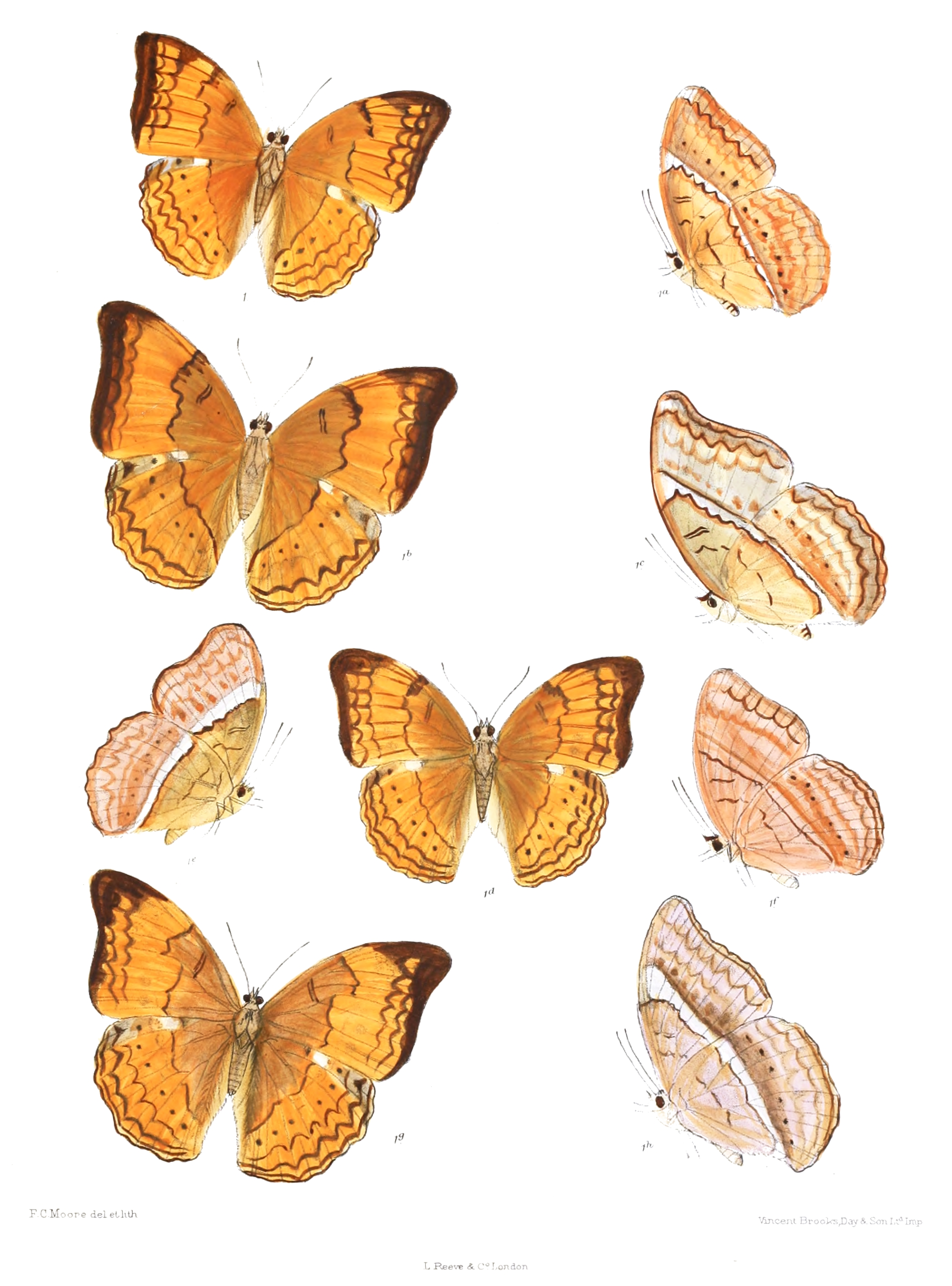 Cirrochroa thais (1, 1a, b c - wet season form, 1d e f g h - dry season form)